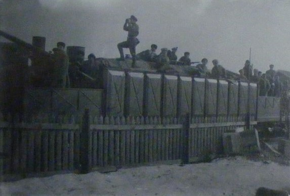 1918 Finnish Civil War, the Russian armoured train "Ukrainski Revolutsija" (nicknamed "Porcupine") at the Vyborg railway station.